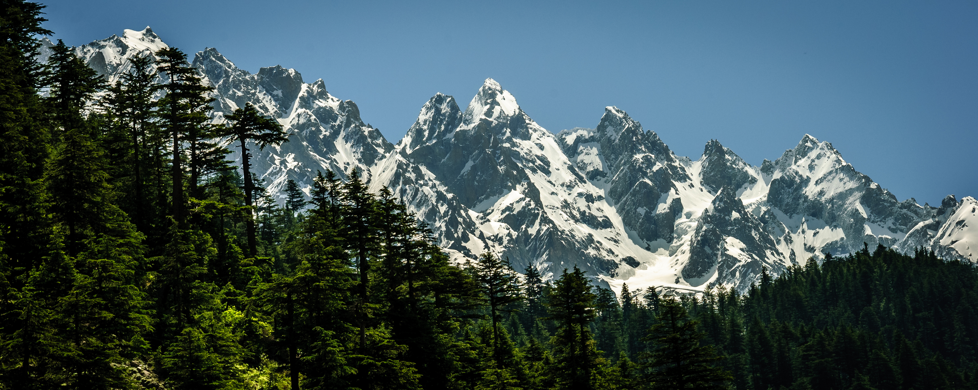 Mountains in Swat Vally Pakistan